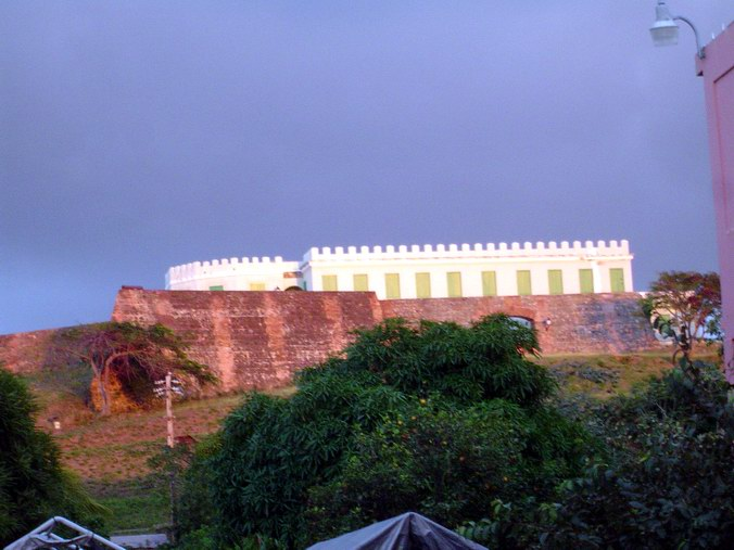 Fort Conde de Mirasol above the town of Isabel Segunda, Vieques, Puerto Rico